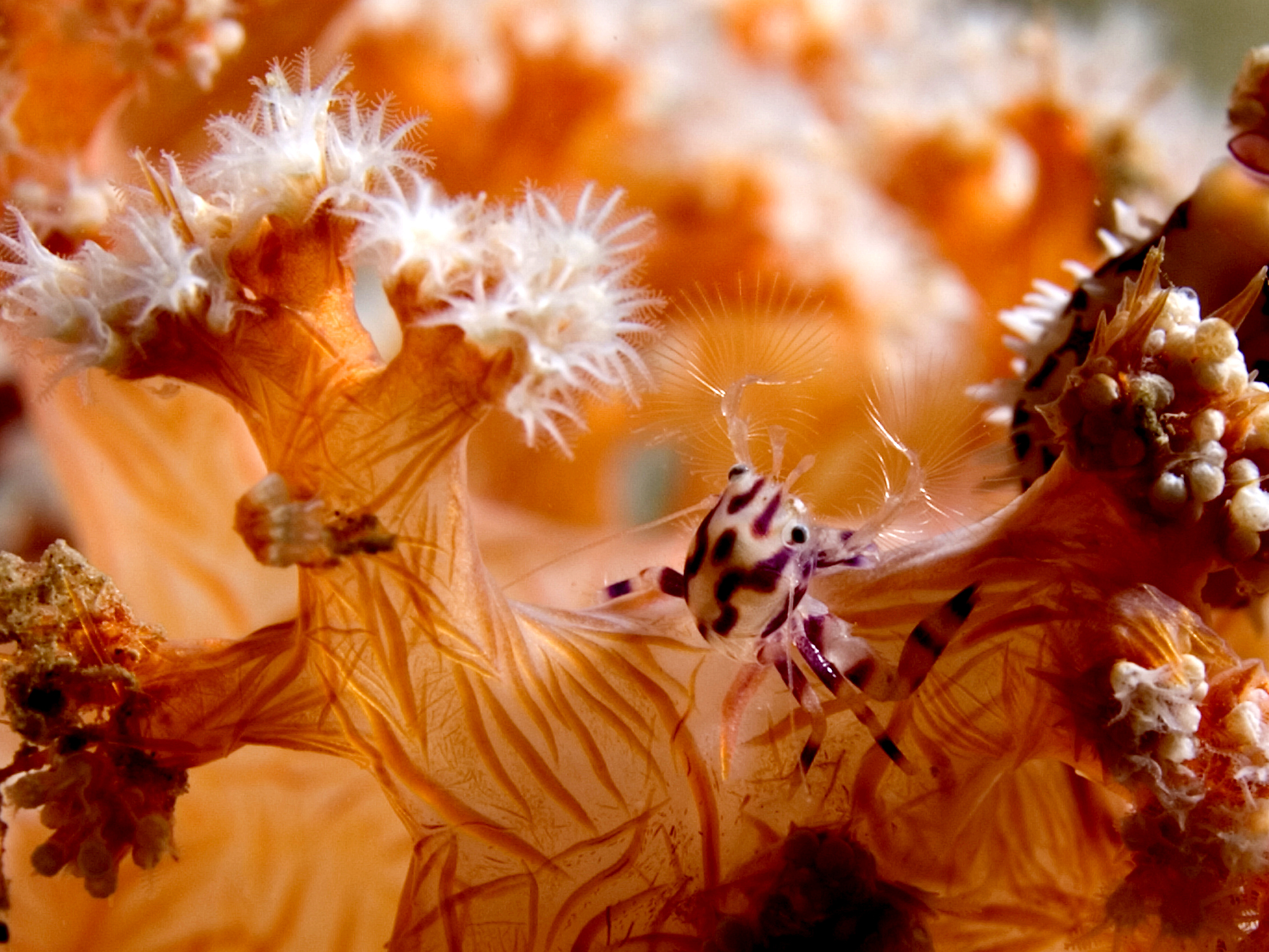 Porcellanella picta (Porcelain crab) in Dendronephthya sp. (Roxasia tree coral). This small crab can be seen filter feeding using its front legs which have adapted into fine combs to catch particles and plankton from the water column.